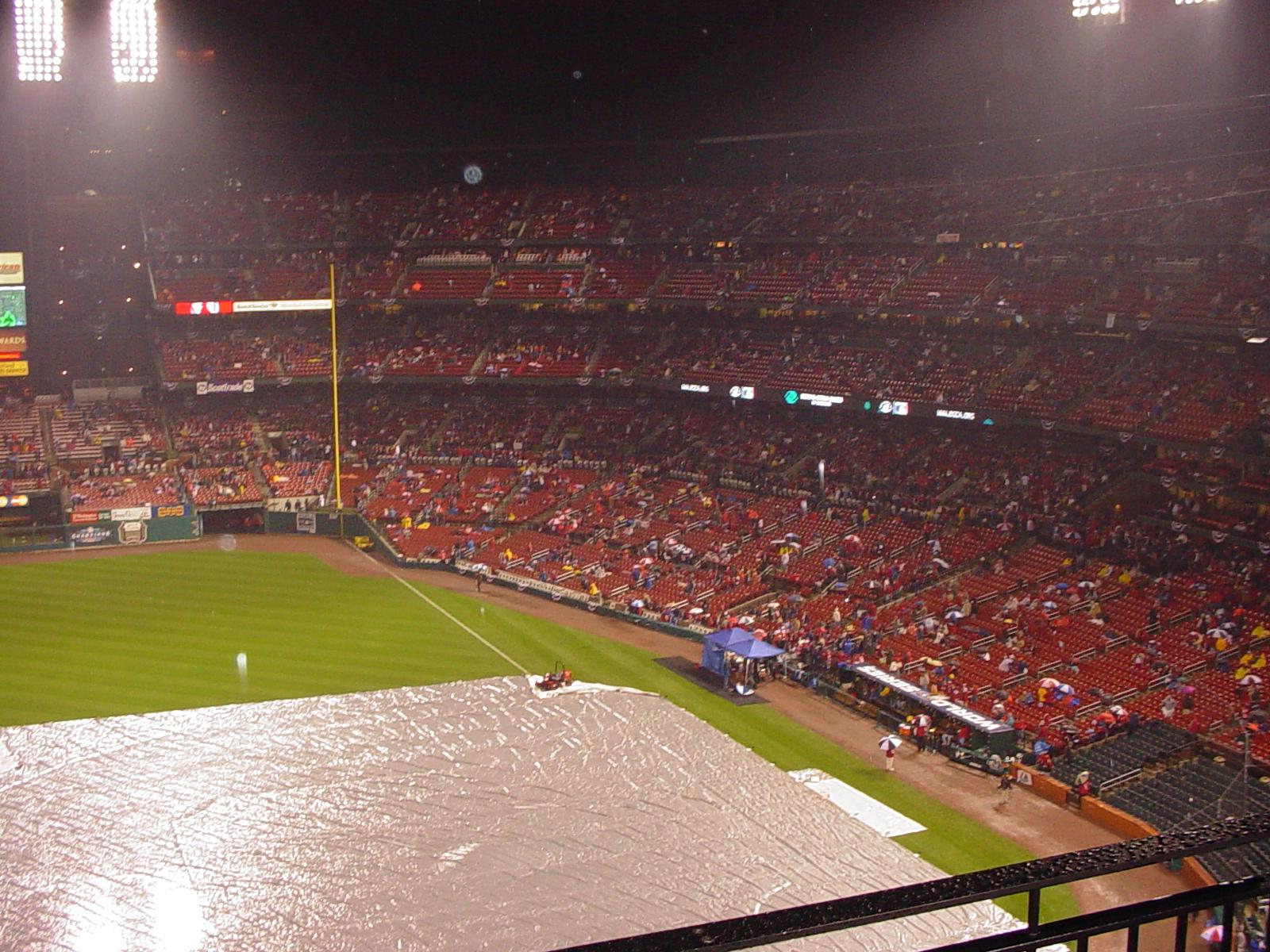 2006 World Series, Game 4. Rain-out at Busch Stadium on October 25th, 2006.